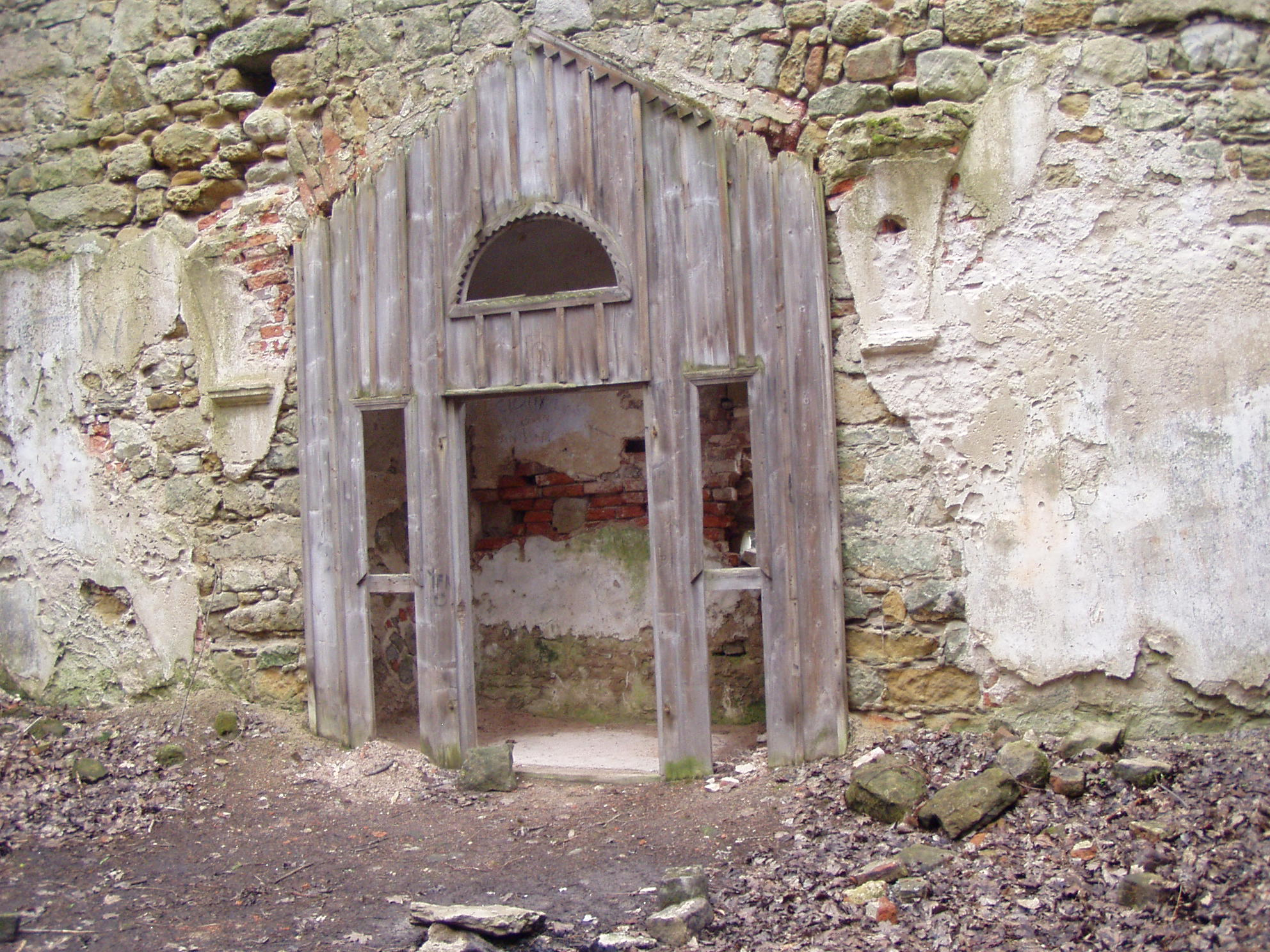 Zdoňov - ruins of church of Virgin Mary